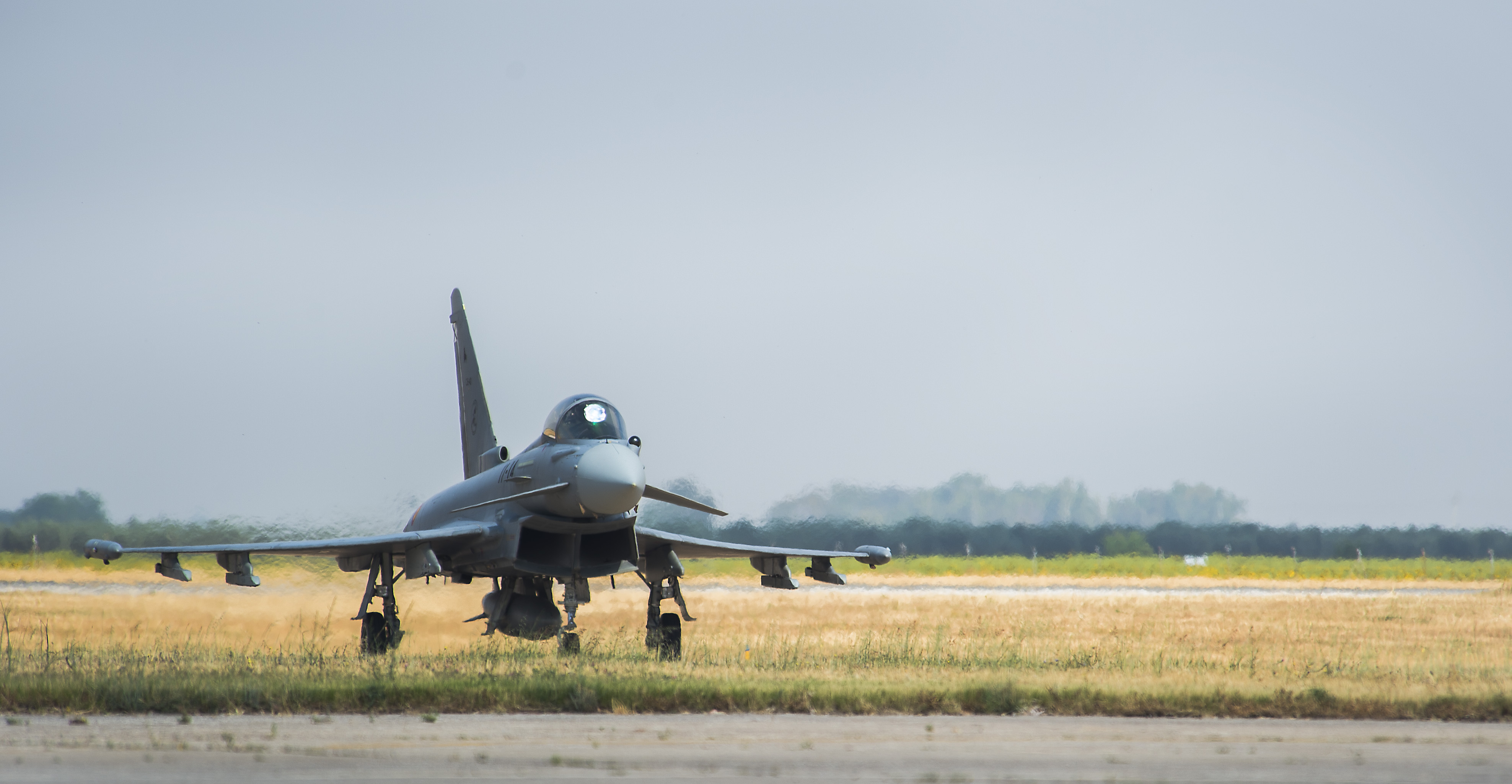 2015 Moran Air Base Open House - publicity photo